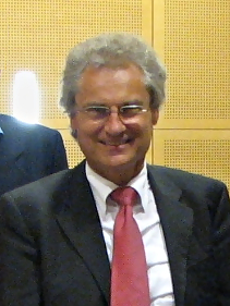 Henning Kagermann (SAP CEO)